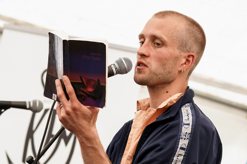 Jonas Eika at Litteraturexchange Festival, Aarhus 2019